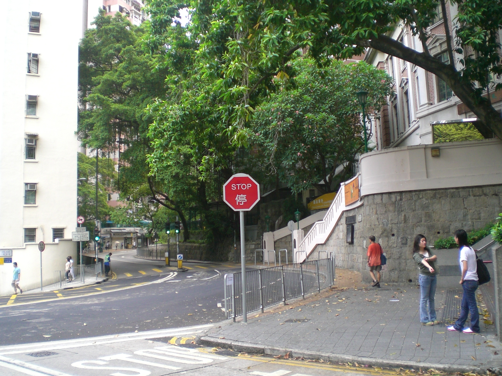 Bonham Road near University of Hong Kong, with stop sign with text 停